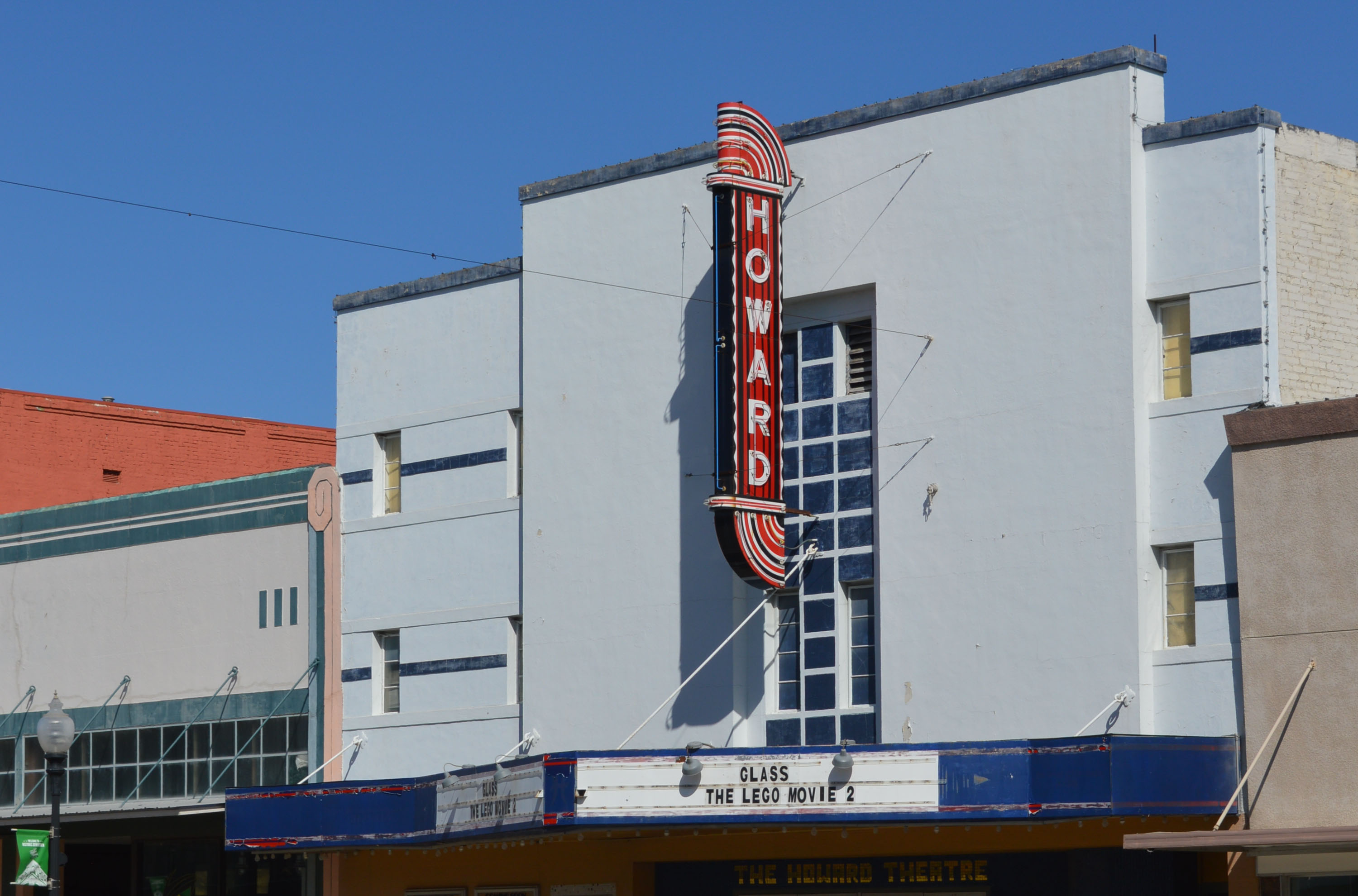 Howard Theater in Downtown Taylor